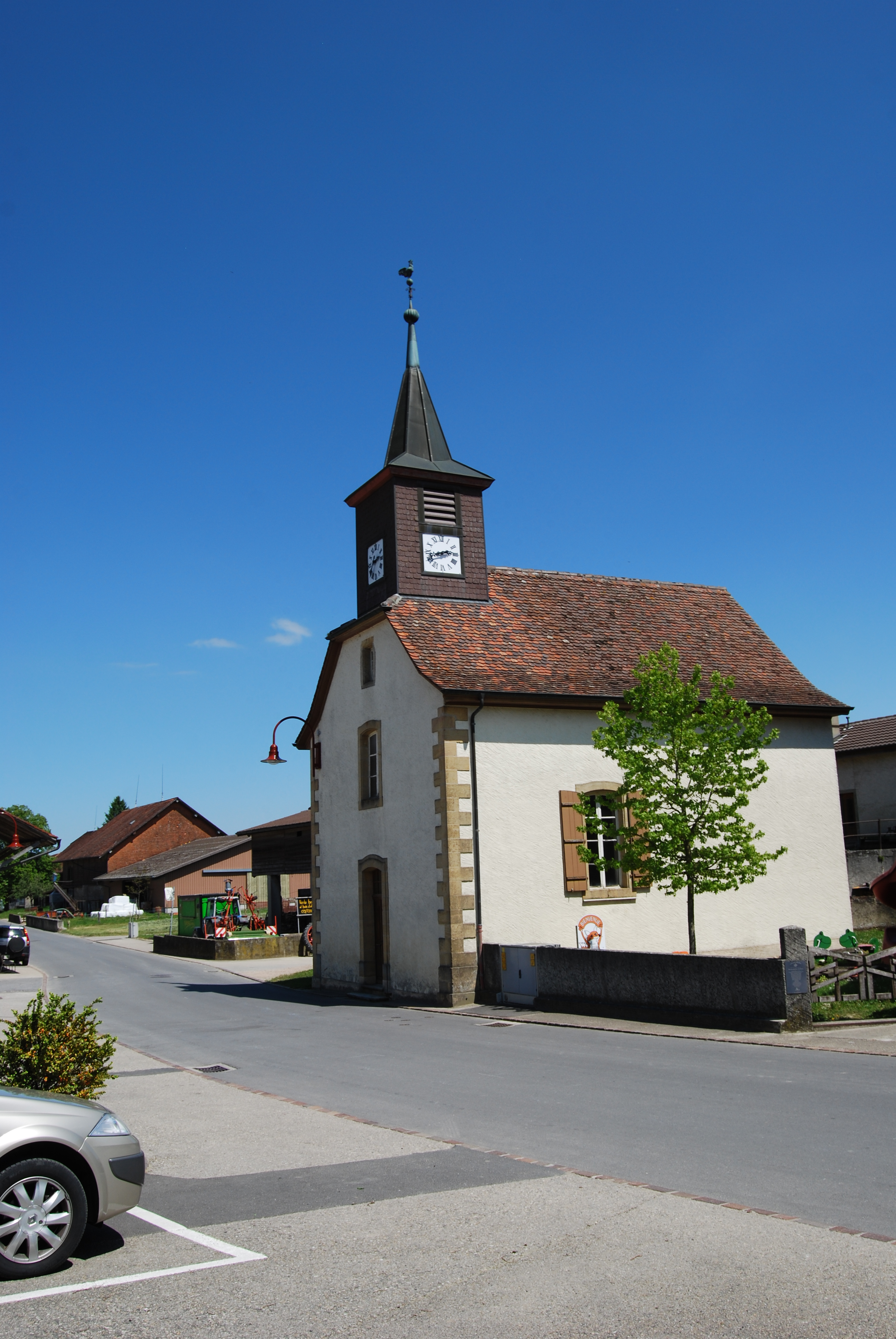 Church of Cuarny, canton of Vaud, Switzerland